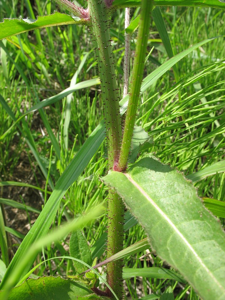 Photograph of Picris hieracioides var. glabrescens ,taken in Tama city, Tokyo, Japan.